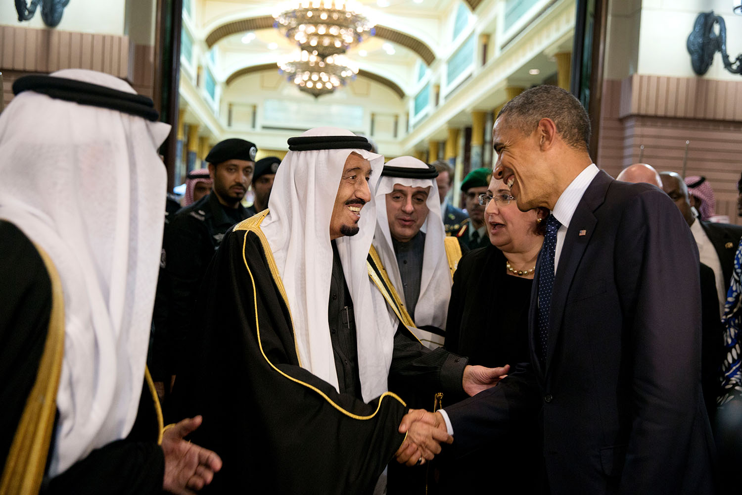 King Salman bin Abdulaziz of Saudi Arabia bids farewell to President Barack Obama at Erga Palace in Riyadh, Saudi Arabia, Jan. 27, 2015.